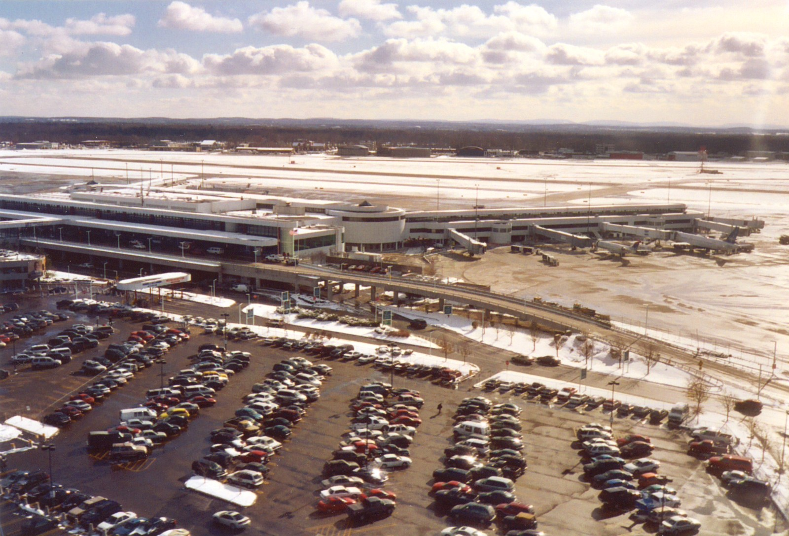 Passenger Terminal of Greater Rochester International Airport seen from aircraft about to land on Runway 22 in December 2005.